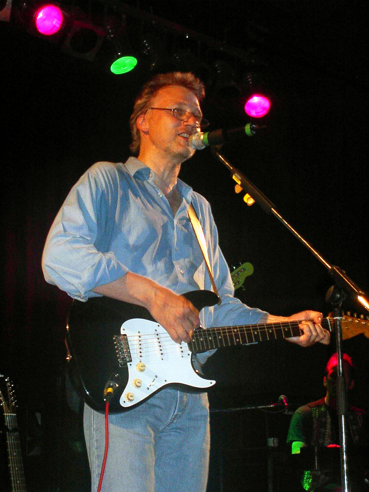 David Knopfler performing in concert on May 25, 2002